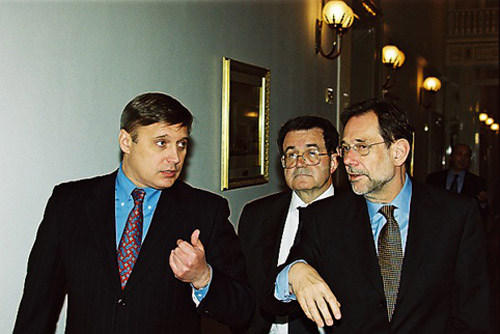 THE KREMLIN, MOSCOW. From left to right, Russian Prime Minister Mikhail Kasyanov, Romano Prodi, President of the European Commission, and Javier Solana, Secretary General of the Council of the European Union and High Representative for the Common Foreign and Security Policy, after a meeting during the Russia-EU summit.